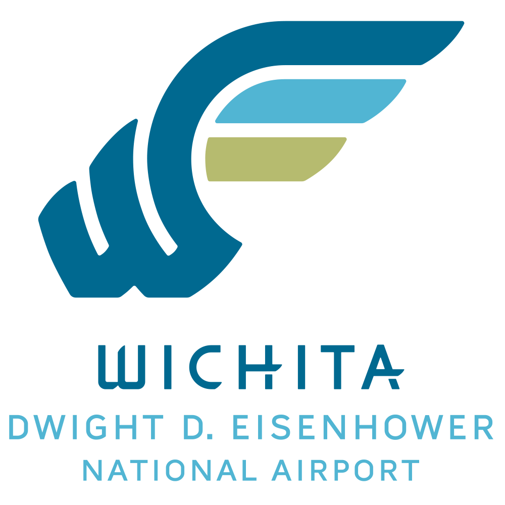 PNG logo for Wichita Dwight D. Eisenhower National Airport